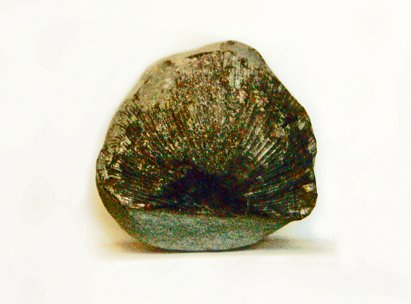 Strophomena euglypha from Silurian period